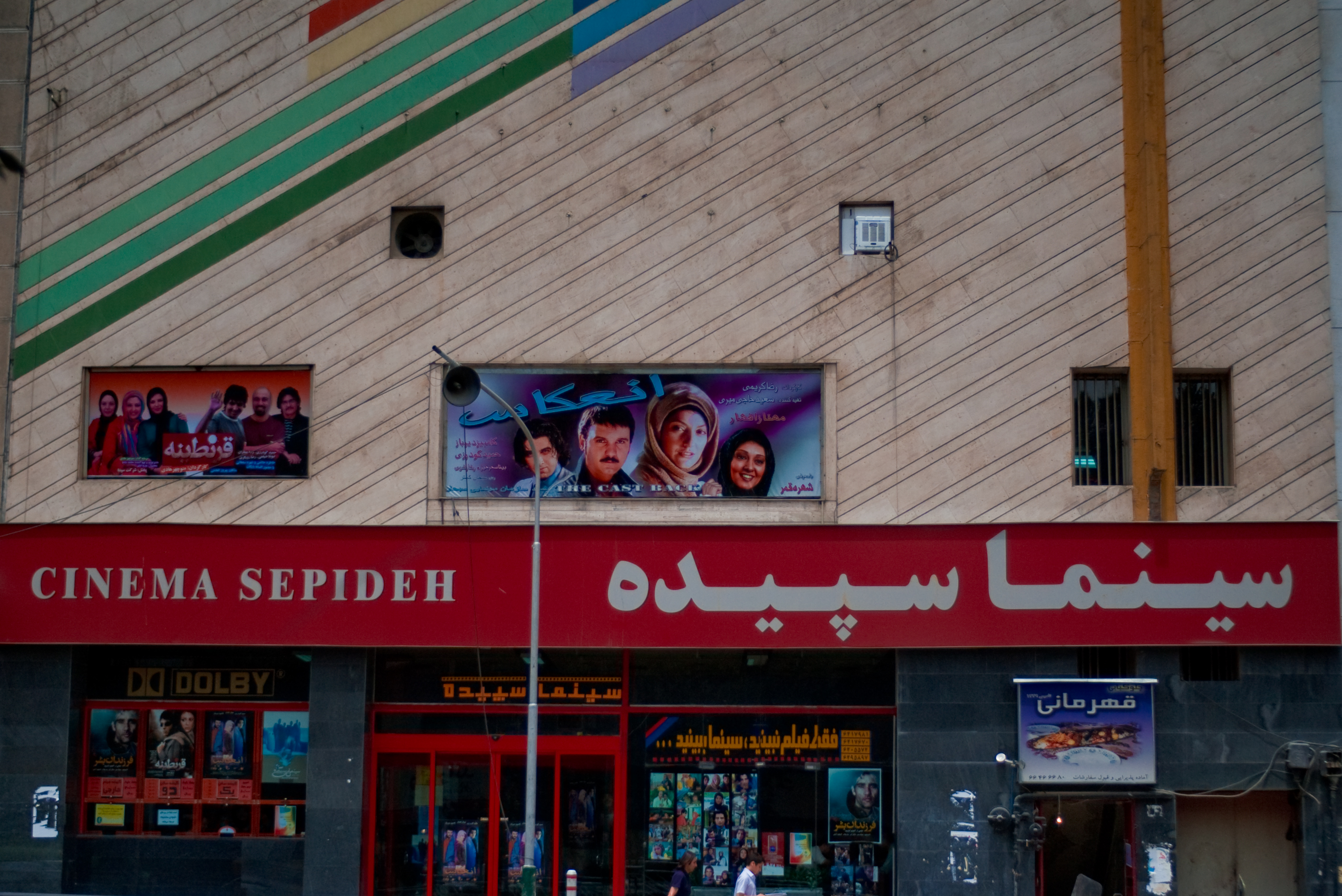 Cinema Sepideh, Tehran, Iran